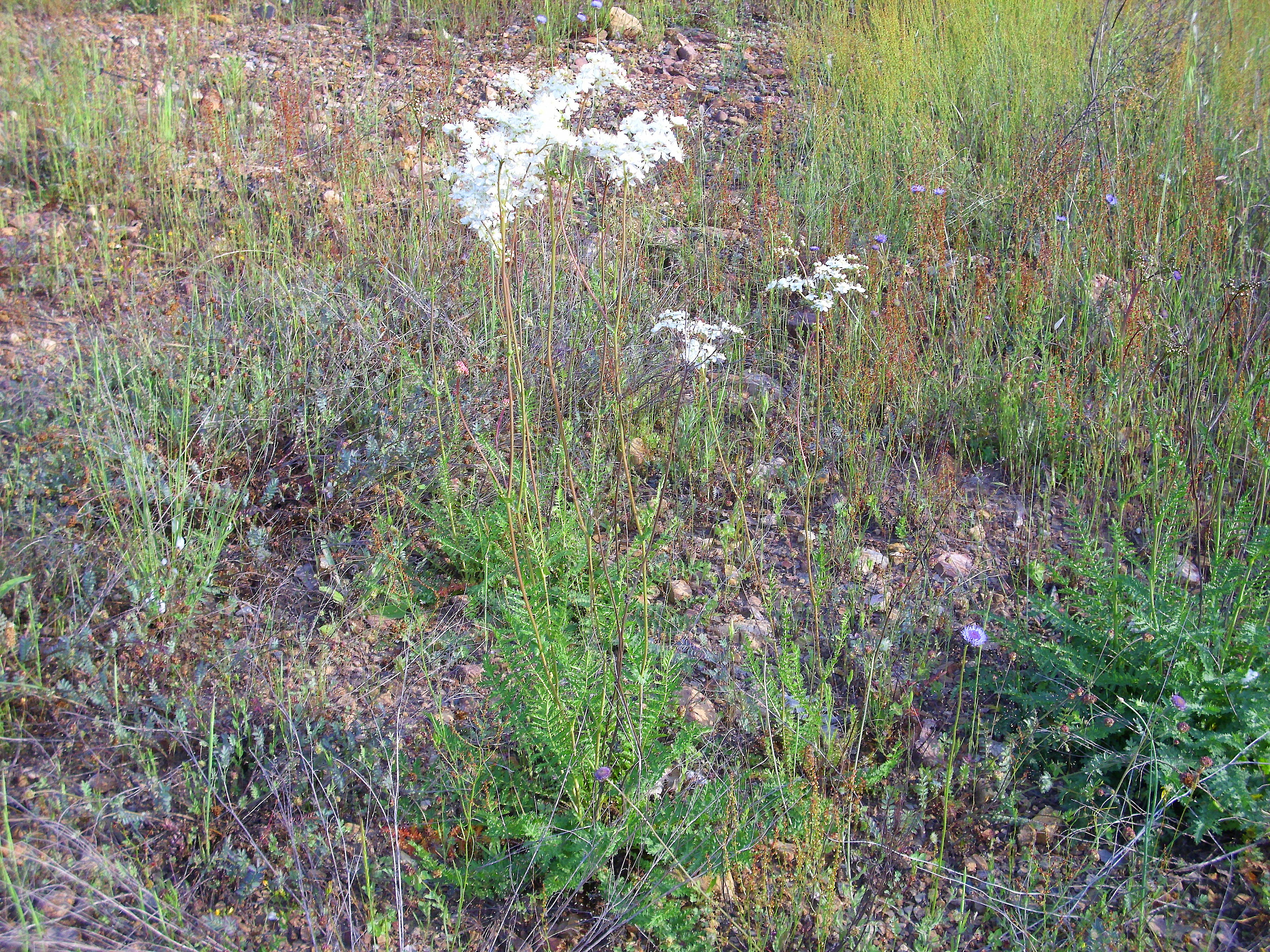 Filipendula vulgaris habit, Sierra Madrona, Spain